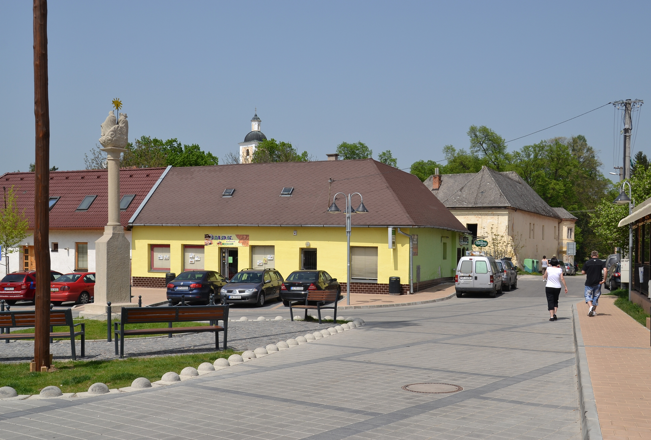 Beckov - center of the village